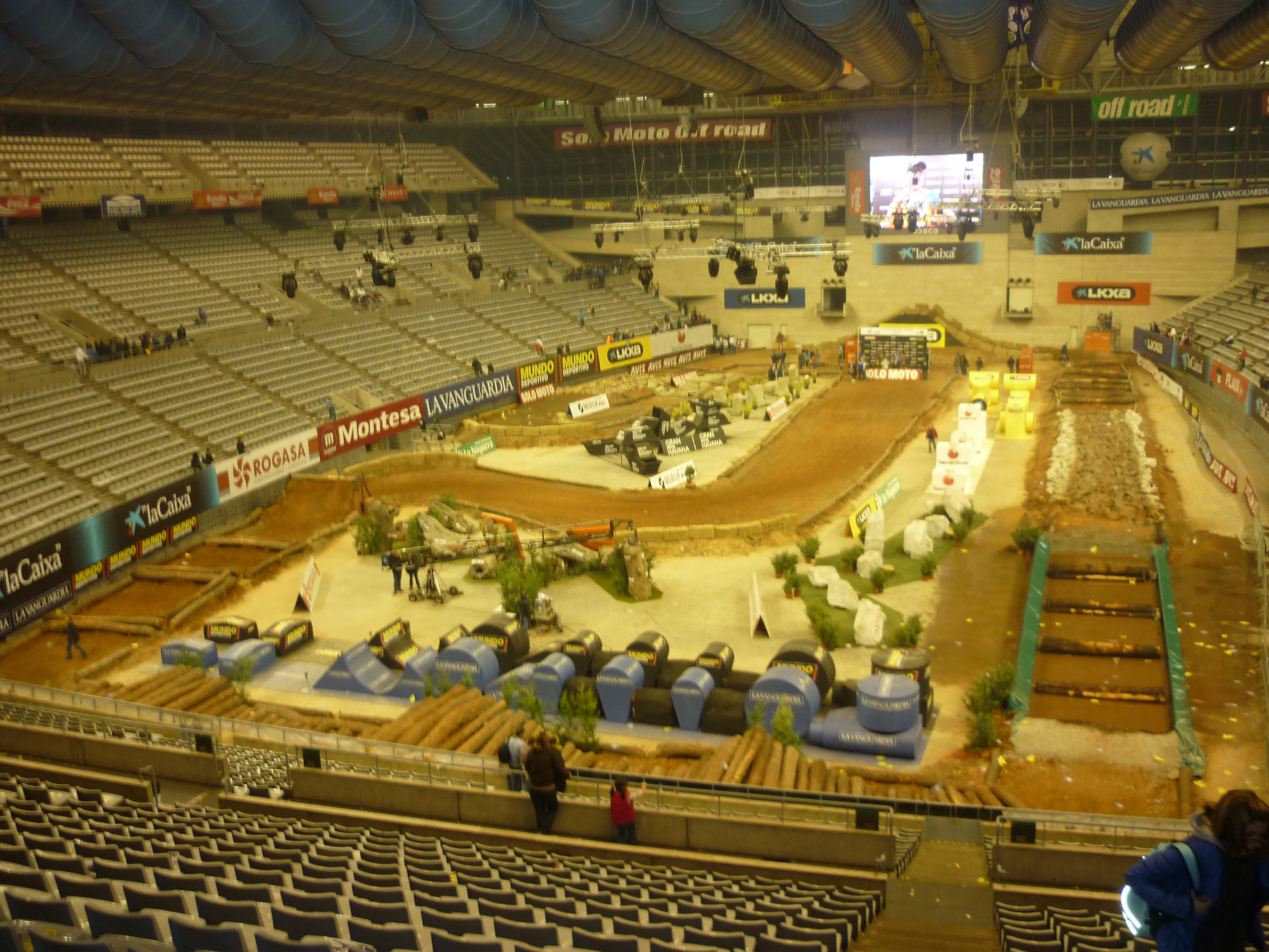 Palau Sant Jordi (Barcelona, Catalonia) during the XXXIV Trial Indoor de Barcelona.